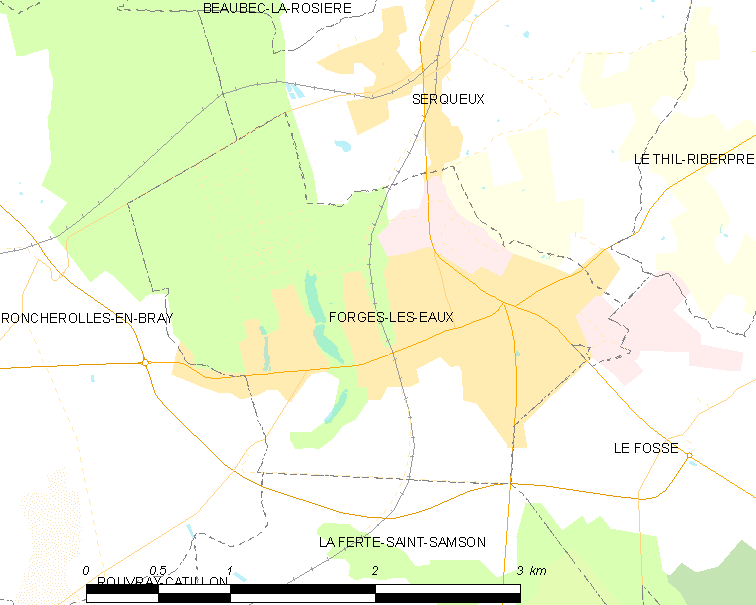 Map of French municipality Forges-les-Eaux